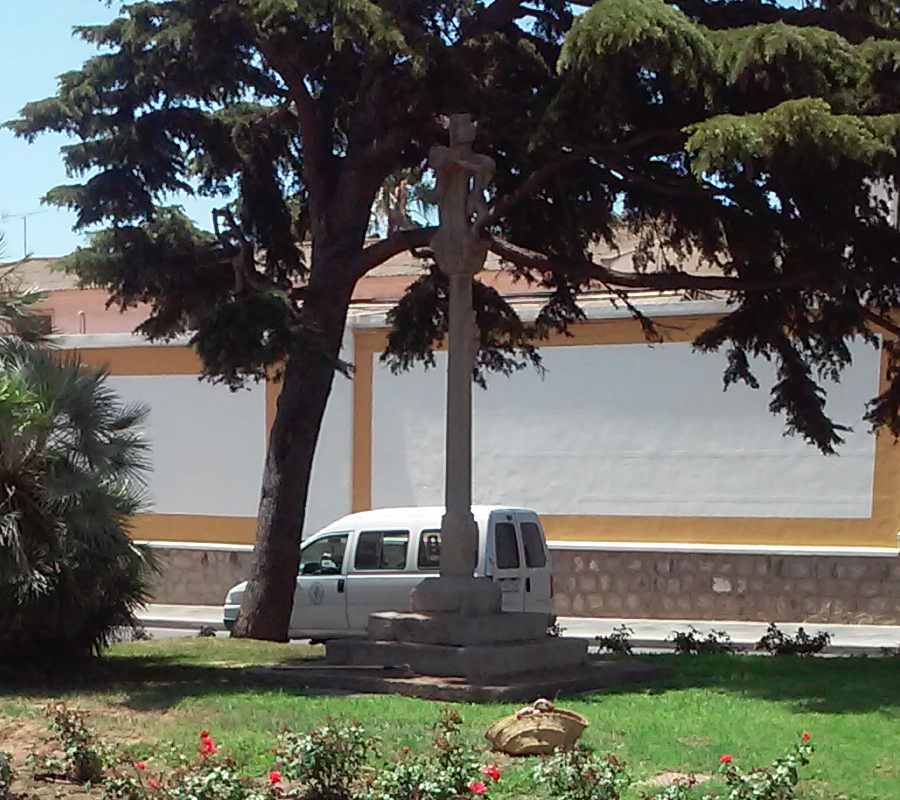 The Calvary of Cartagena, a sculpture associated with Galician culture that was a gift from the City Council of Ferrol in 1973 and is located in the Real Street of the city.